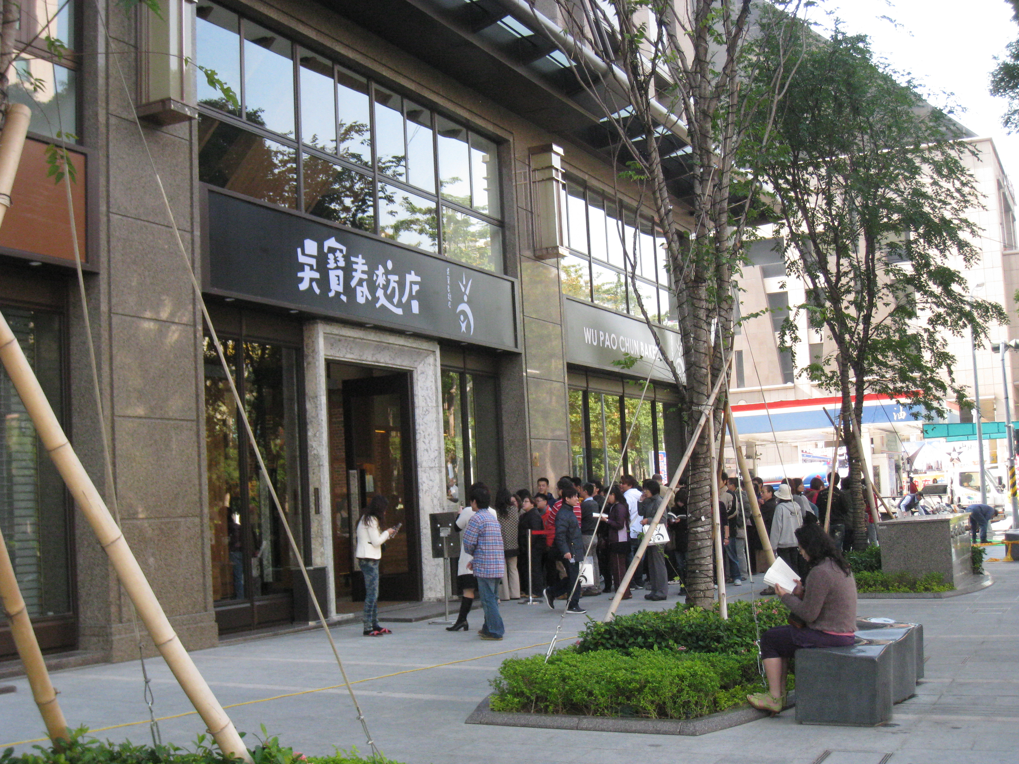 Wu Pao Chun Bakery